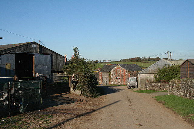 North Petherwin: Billacott The farm straddles the lane to Brazacott Cross